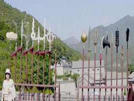 An edit of Image:WpGreatWallReproWeapons.jpg Anamorphed image for movie projector page